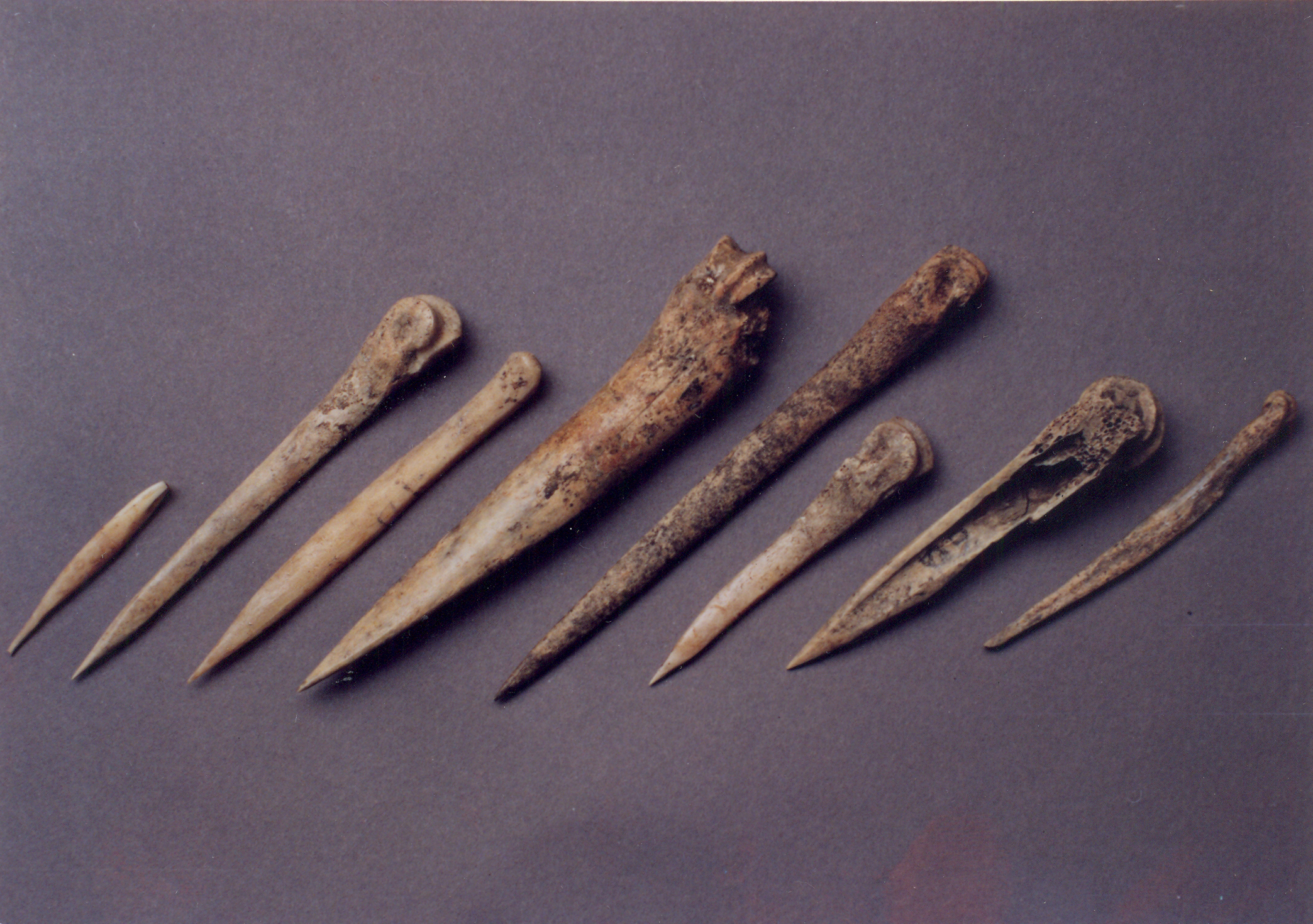 Коштана шила пронађена приликом ископавања археолошког налазишта Благотин